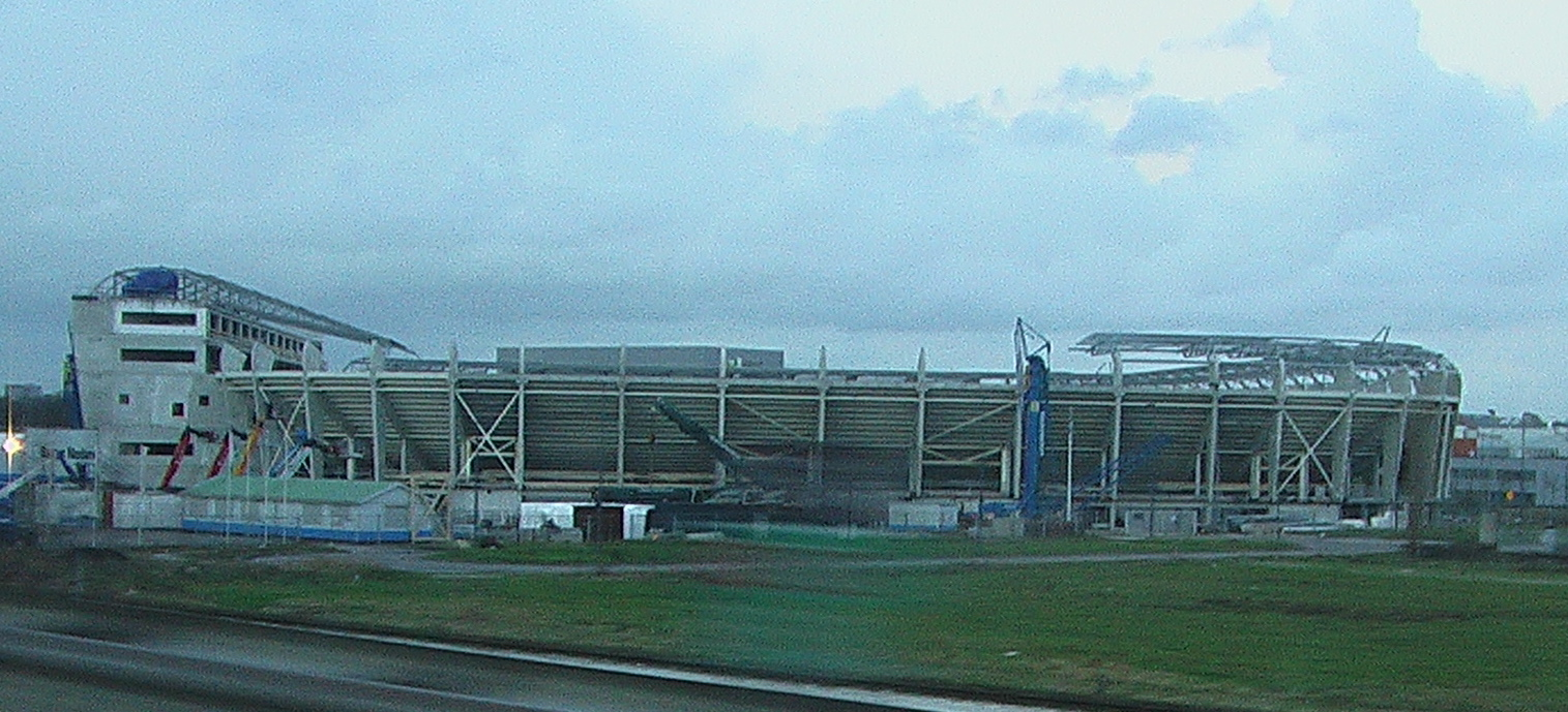 A picture of the new ADO Stadion in The Hague